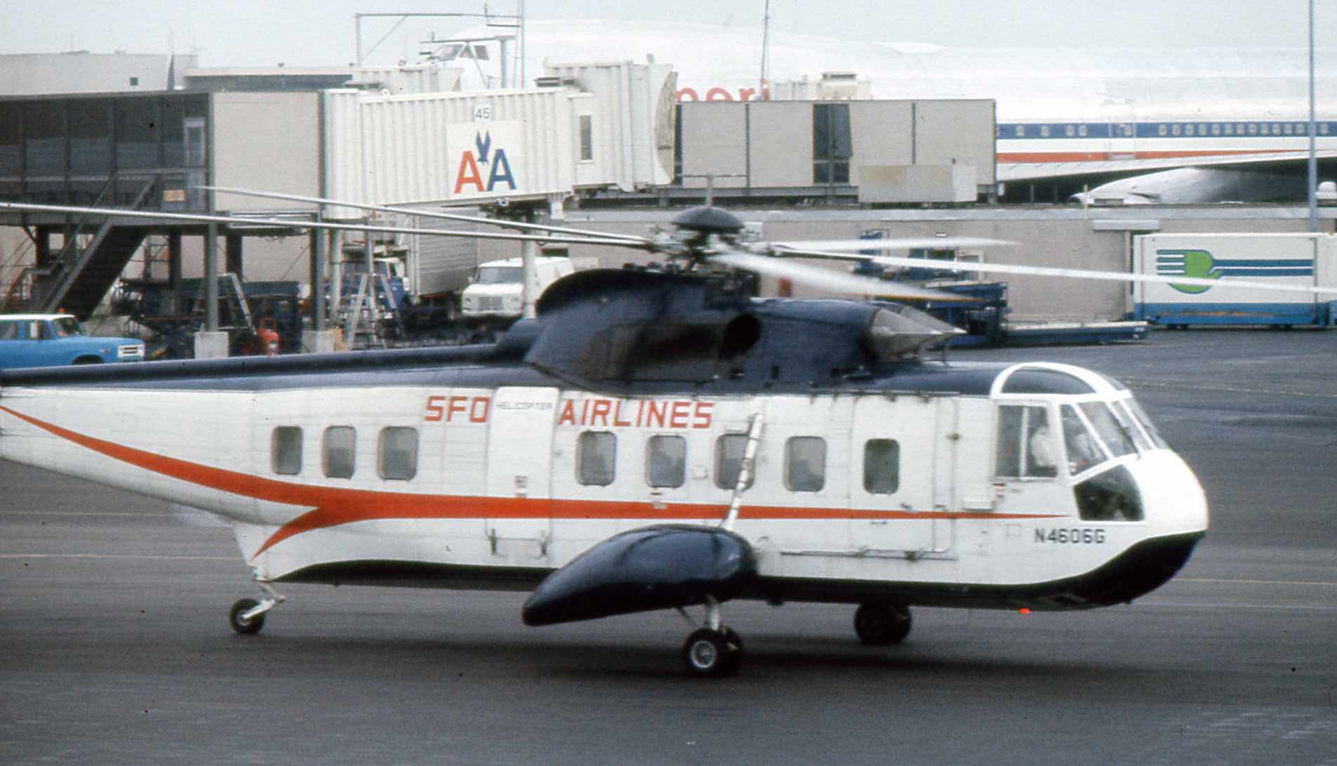 United States, San Francisco International Airport. San Francisco and Oakland Helicopter Airlines Sikorsky S-61L, N4606G, c/n 61-224 taken in 1974.